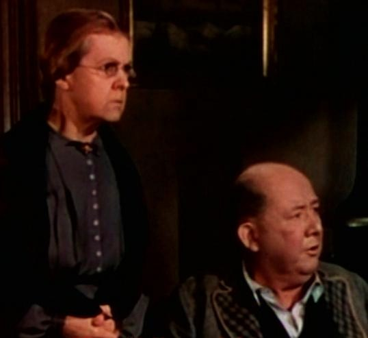 Clara Blandick & J. C. Nugent in A Star Is Born - cropped screenshot